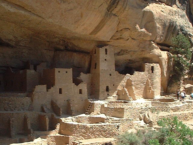 Out in the middle of nowhere, Mesa Verde, an old Native American settlement situated in natural occuring rock formations.